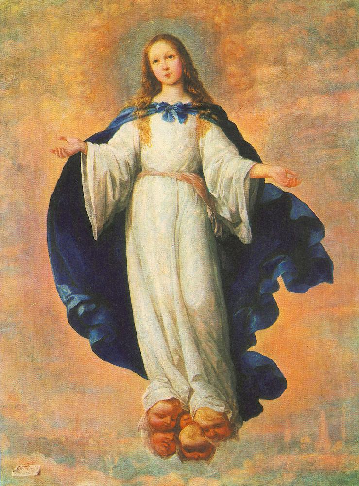 Immaculate Conception